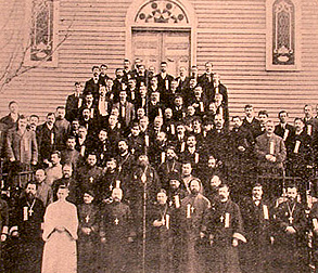 Image from the 1st All-American Sobor of the Orthodox Church in America, held in 1907.